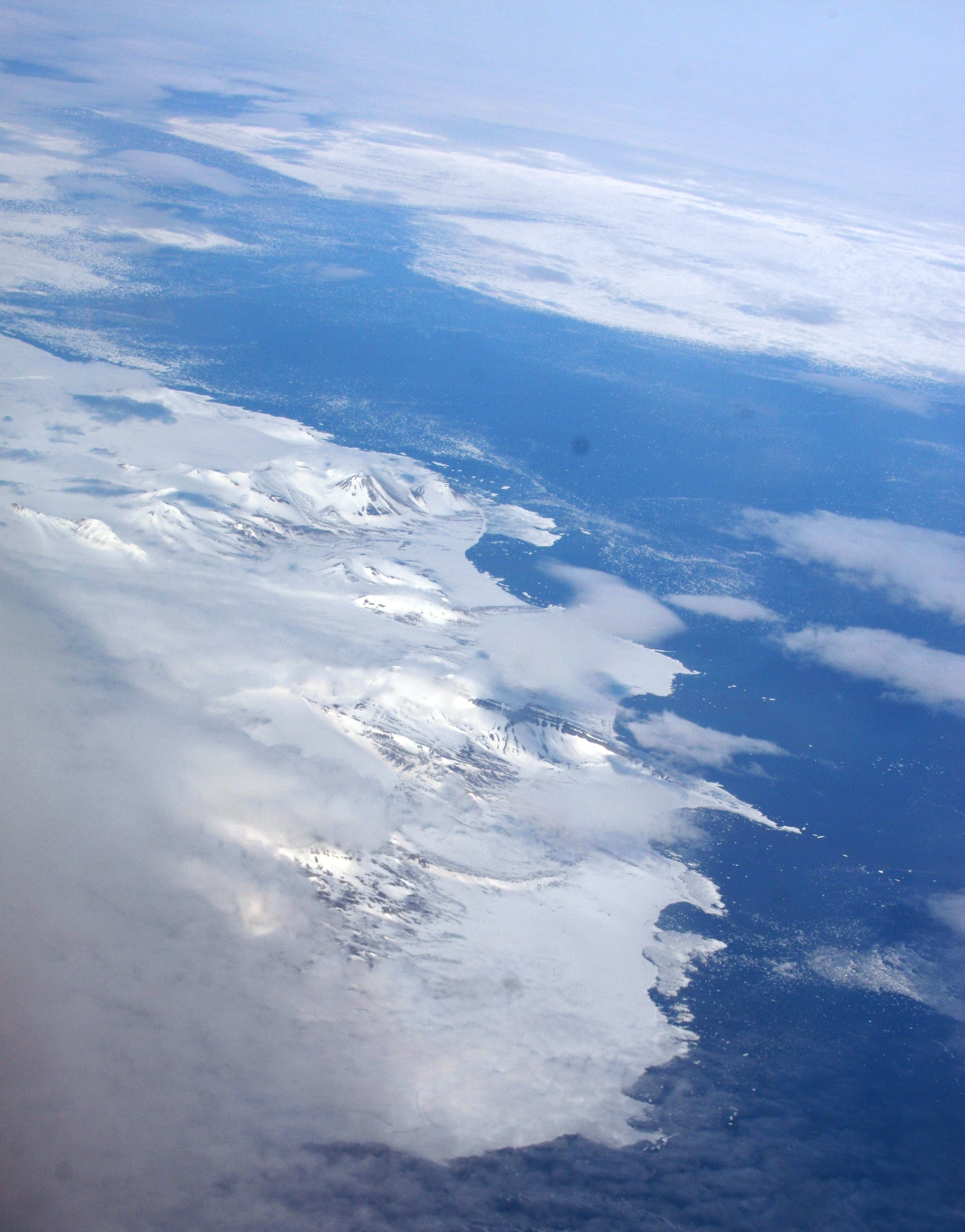 Photo taklen in late April, with Sörkapp Land to the left and the Storfjorden extending ¨northwards - icefree.